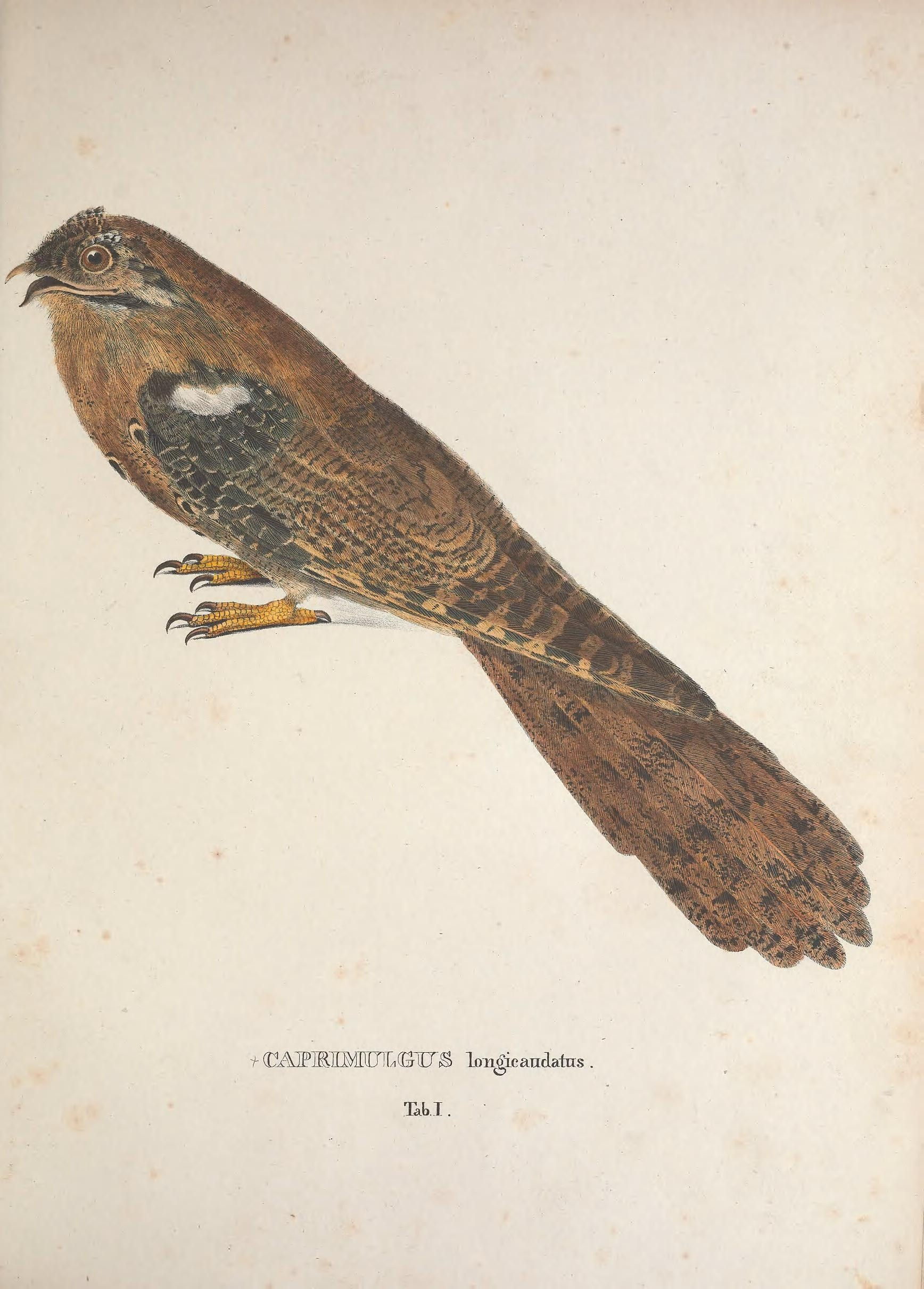 Avium species novae, quas in itinere per Brasiliam annis MDCCCXVII-MDCCCXX /. Monachii :Typis Franc. Seraph. Hübschmanni,1824-1825..